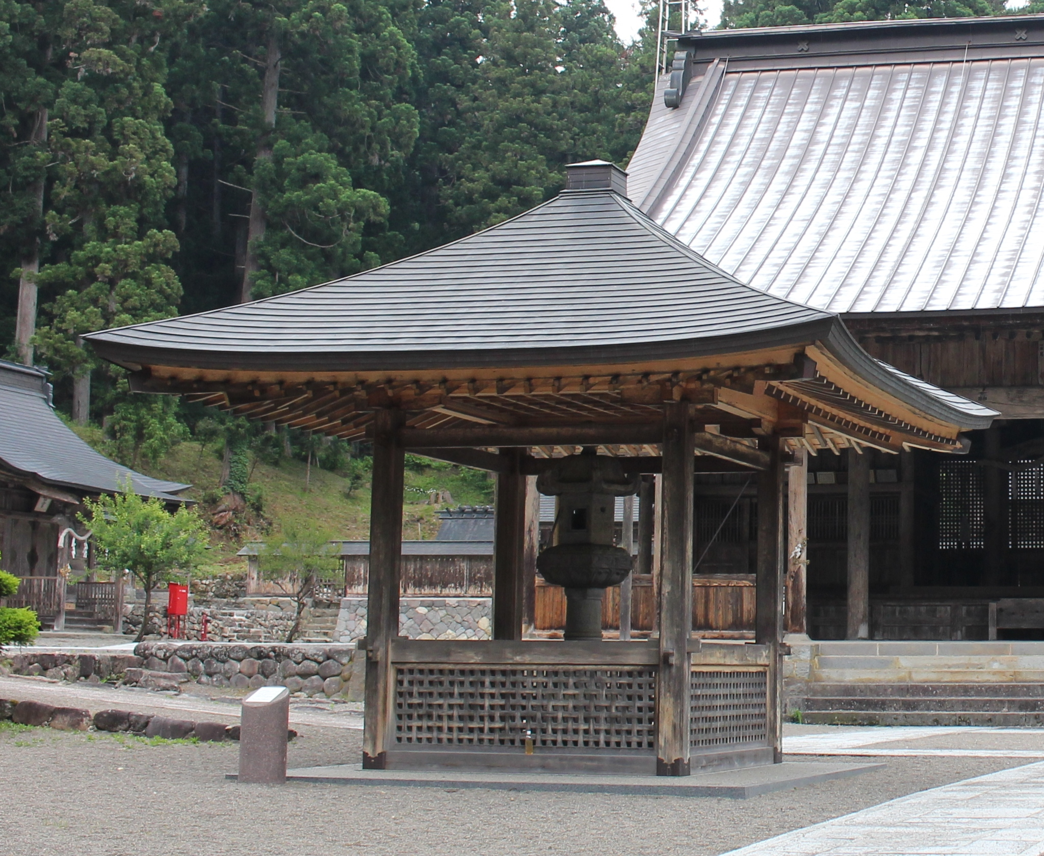 Ishitoro of Nagatakihakusan-jinja in Nagataki, Shiratori, Gujo, Gifu prefecture Japan.